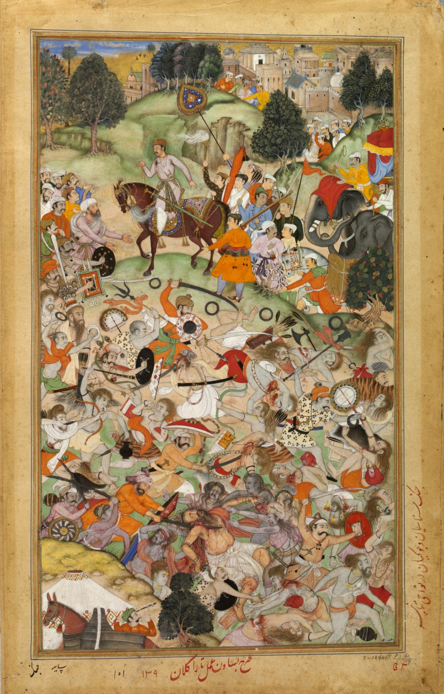 Basawan. Battle of rival ascetics. Akbarnama, ca. 1590, V&A Museum